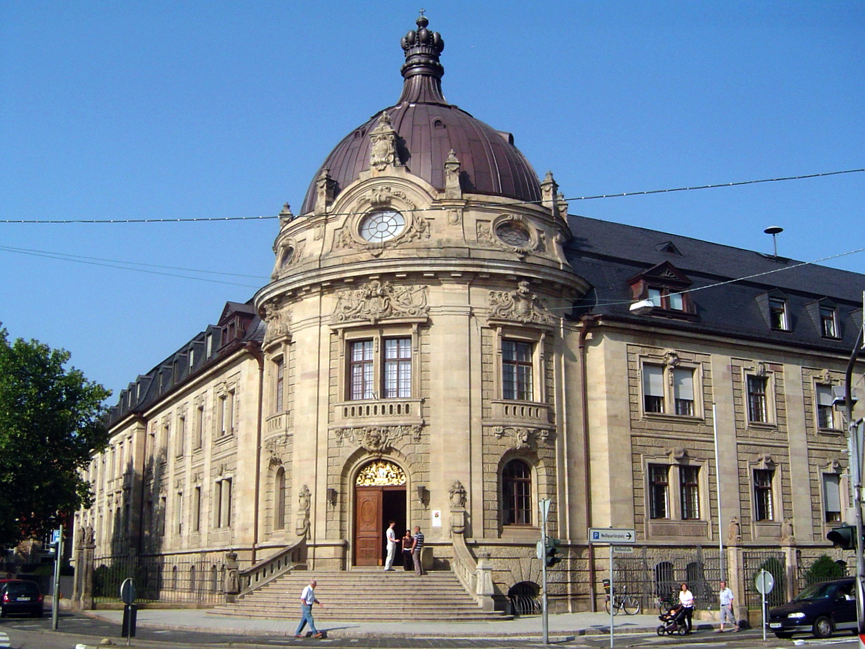 Court House Landau in der Pfalz